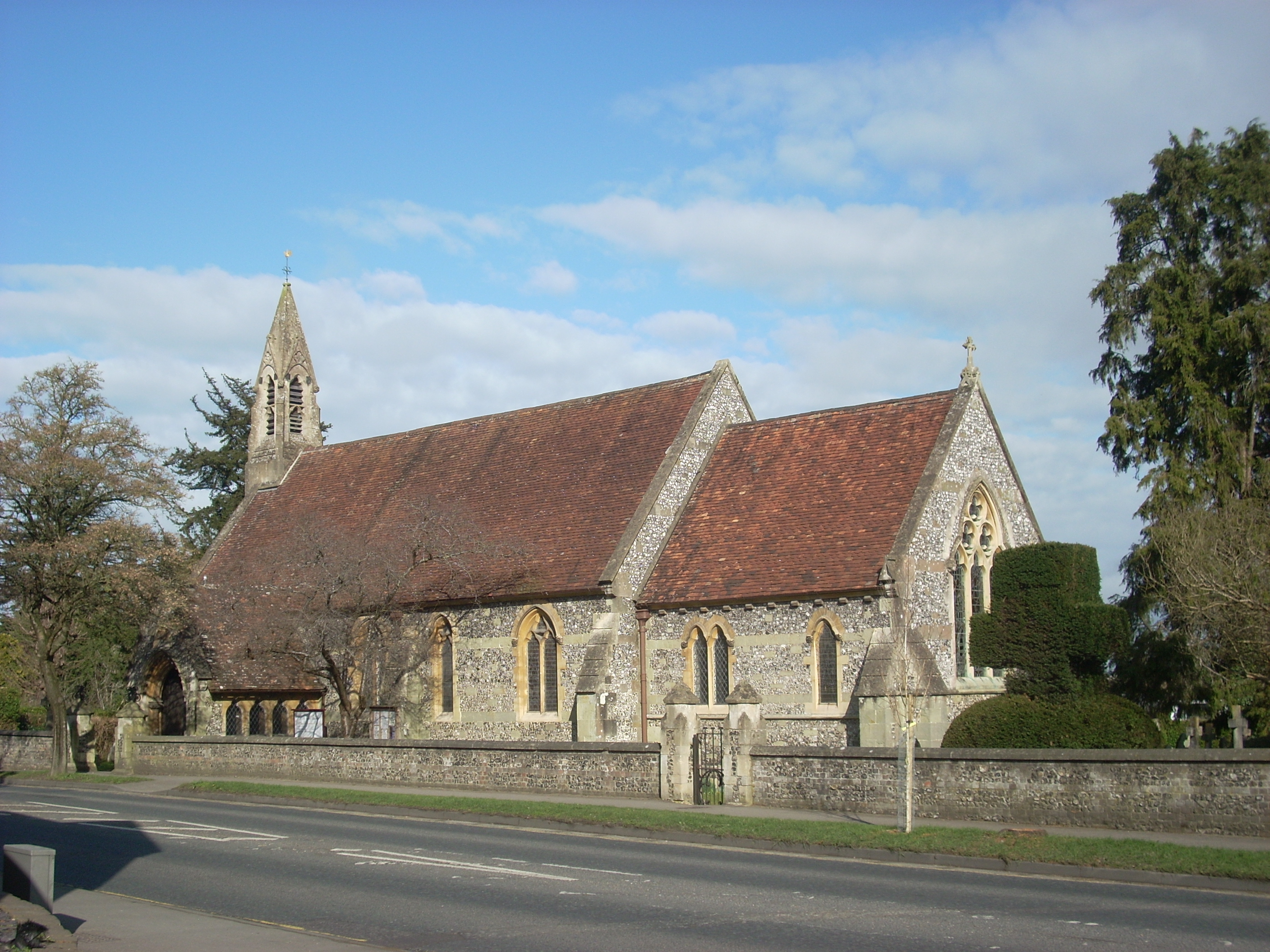 All Saints' parish church, New Harnham Road, East Harnham, Salisbury, Wiltshire, seen form the south